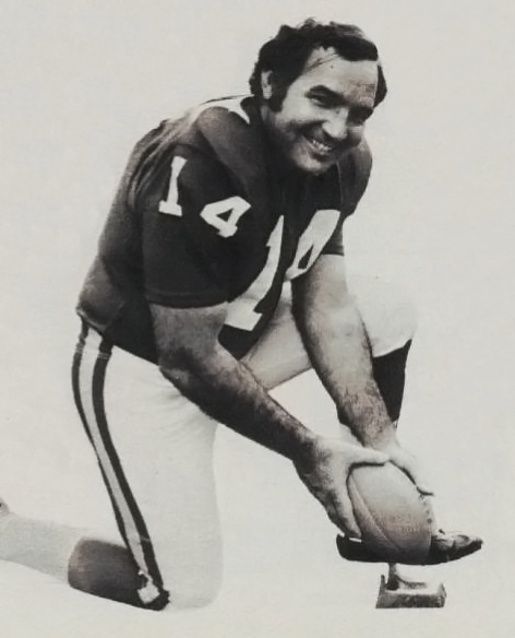 Former Minnesota Vikings kicker Fred Cox